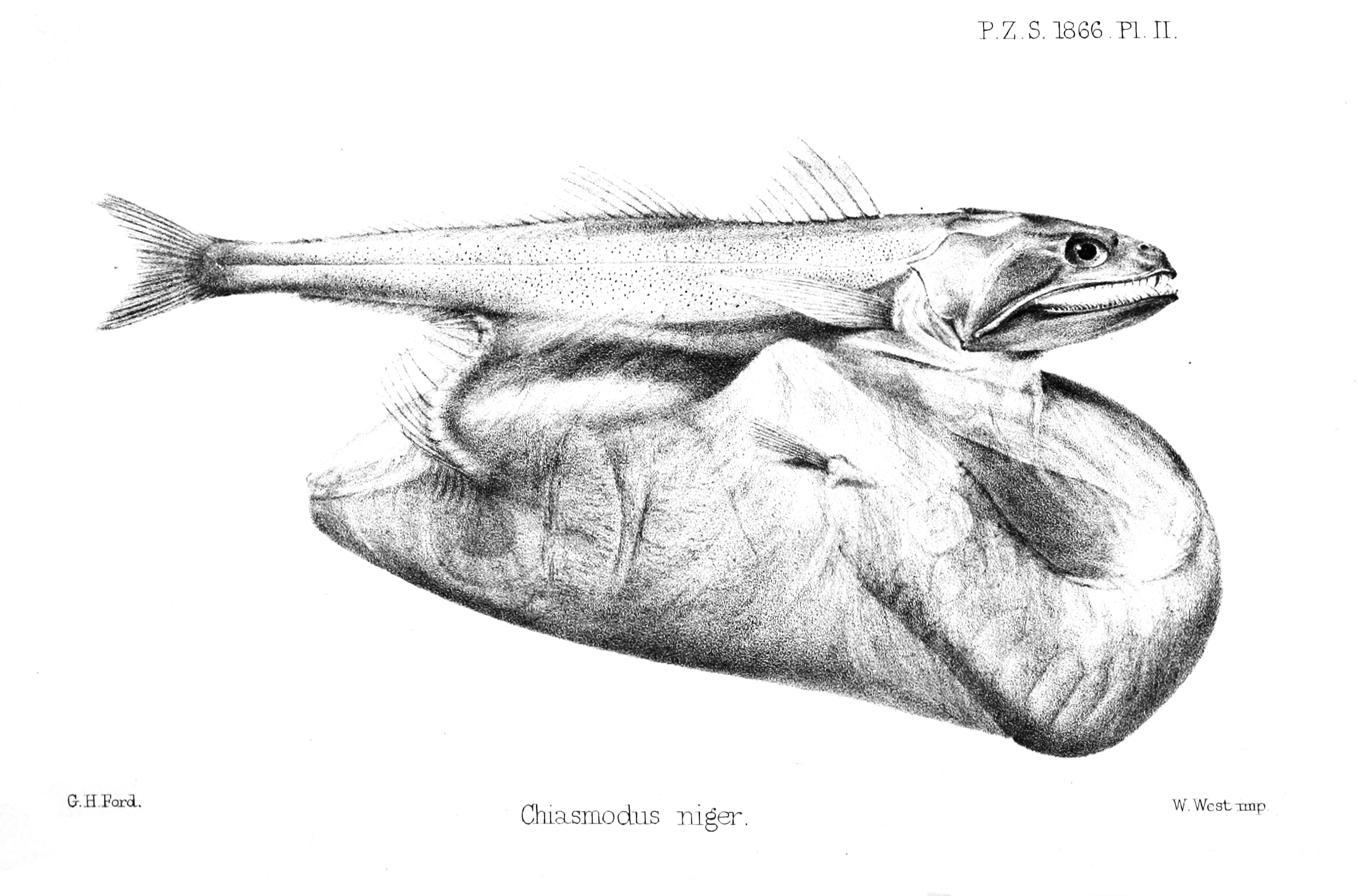 Black Swallower (after having swallowed a large fish)